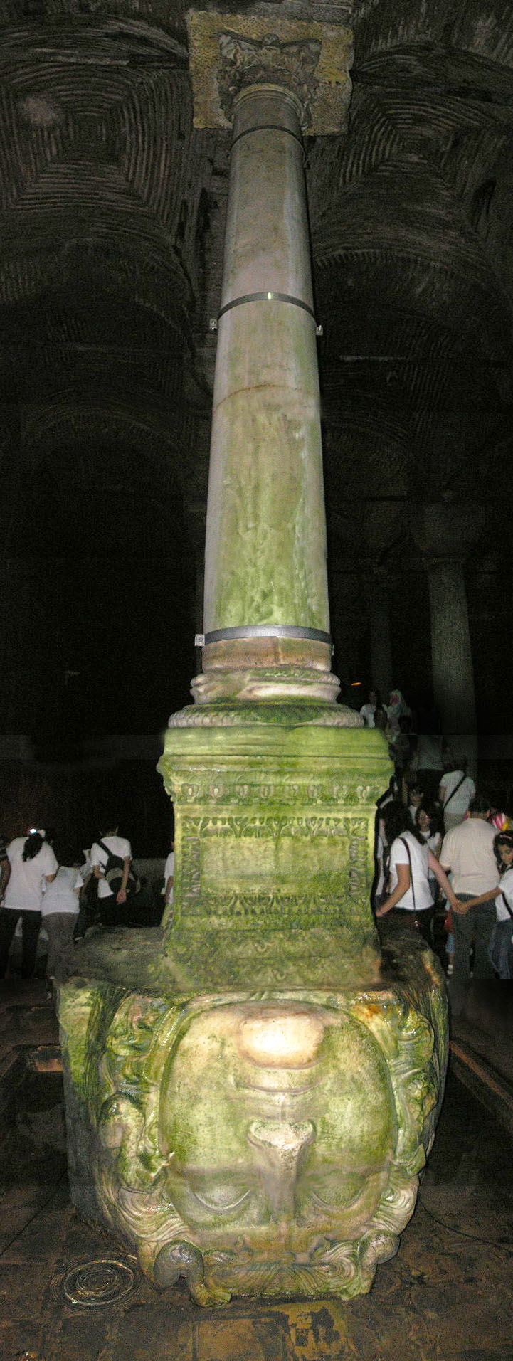 Pillar with the head of medusa as its basis, located at Basilica Cistern in Istanbul.